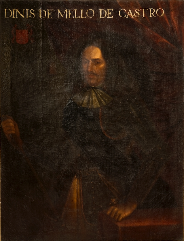 Portrait painting of D. Dinis de Melo e Castro, 1st Count of Galveias (1624-1709), painted 1673-1675 by Feliciano de Almeida. Currently at Galleria degli Uffizi, Florence, Italy.